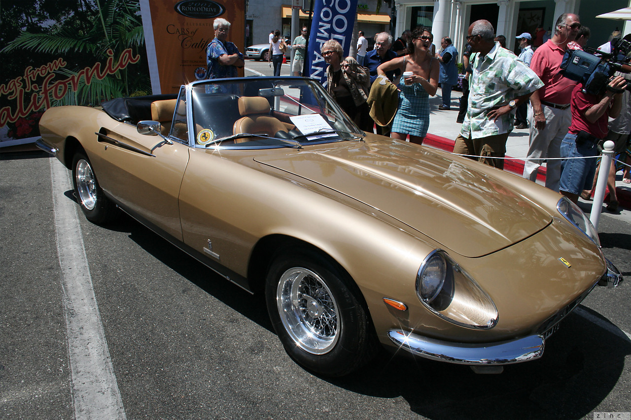 Beverly Hills Concours d'Elegance 2007